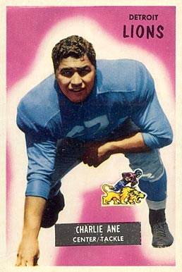 American football player Charley Ane on a 1955 Bowman card.